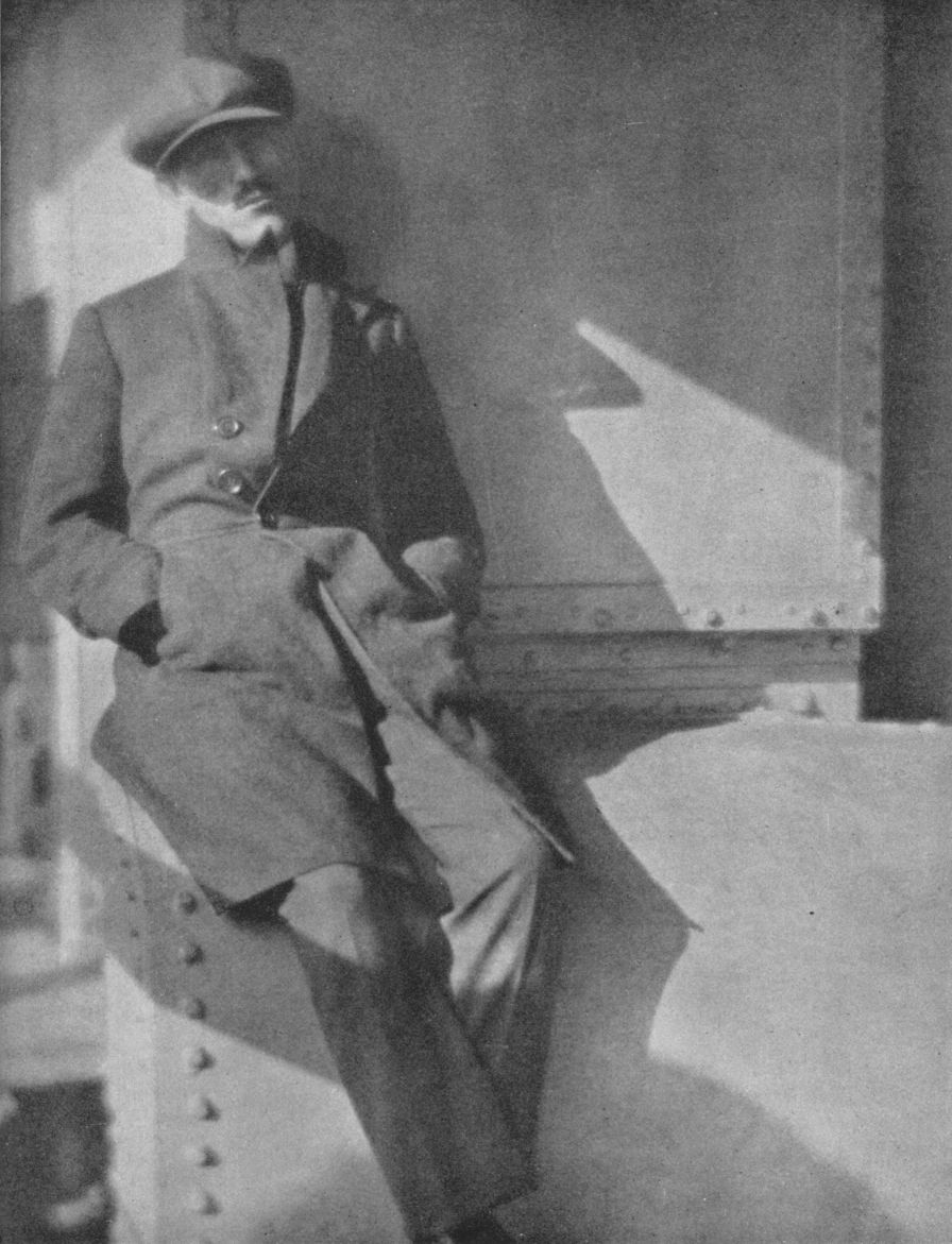 On deck of the Metagama ship, San Francisco, 1922